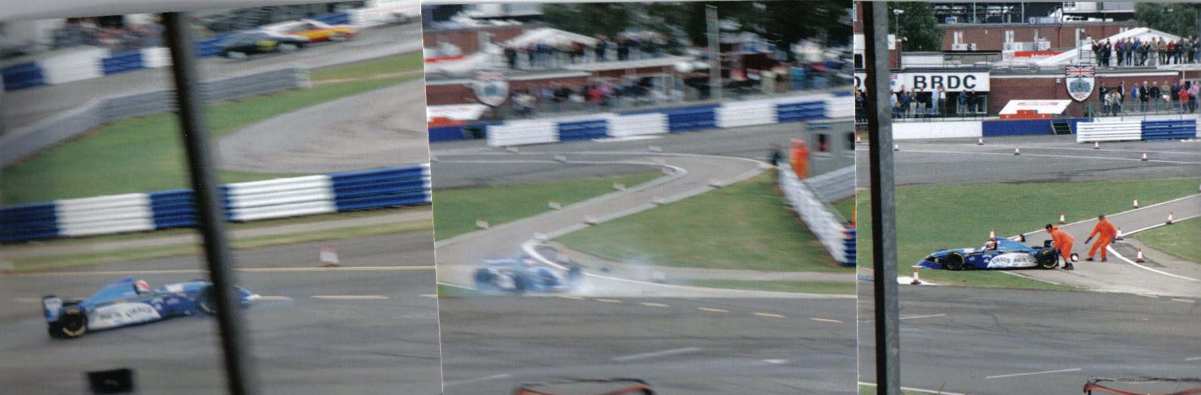 Andrea Montermini spins his Pacific during practice for the 1995 British Grand Prix.